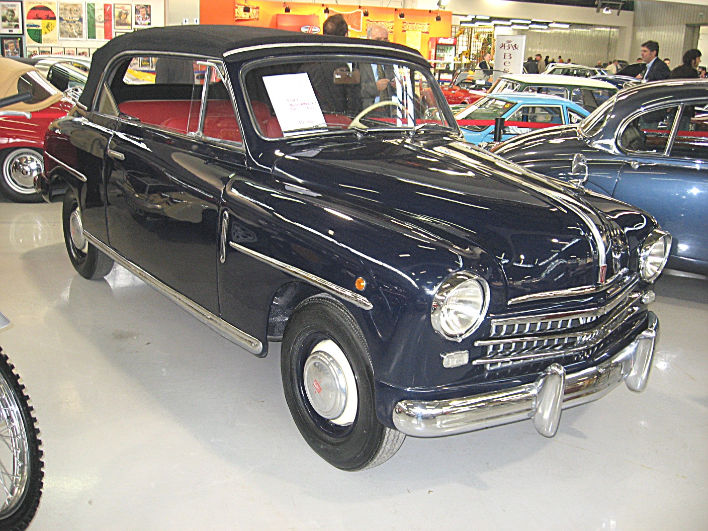 Subject:Fiat 1400 Cabriolet Author:Luc106 Date:March 15th, 2007 Event:Old Timer Show 2008 Place/Country: Forlì, Italy I release all rights in the public domain.